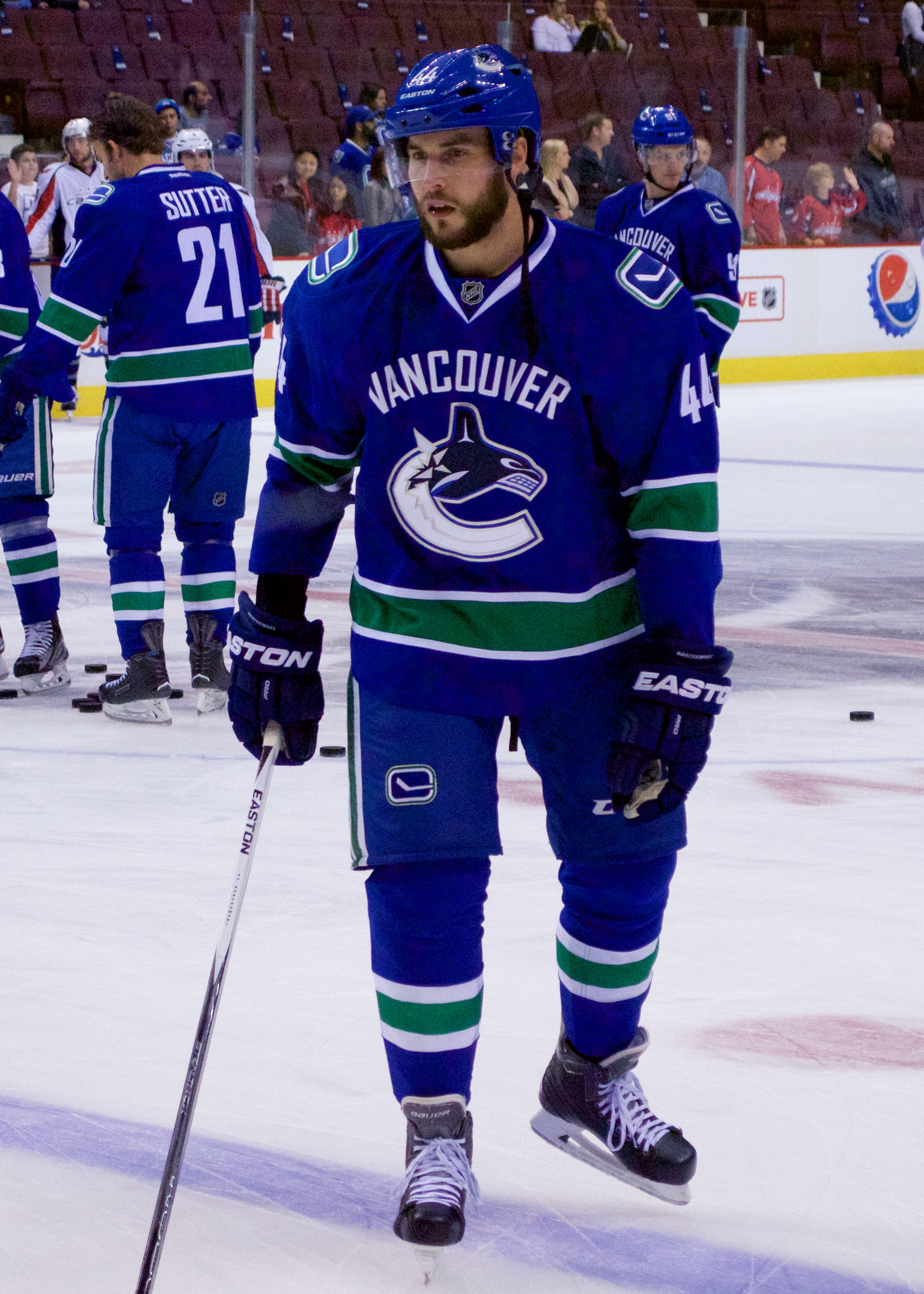 Vancouver Canucks defenceman Matt Bartkowski during pre-game warmup on October 22, 2015.